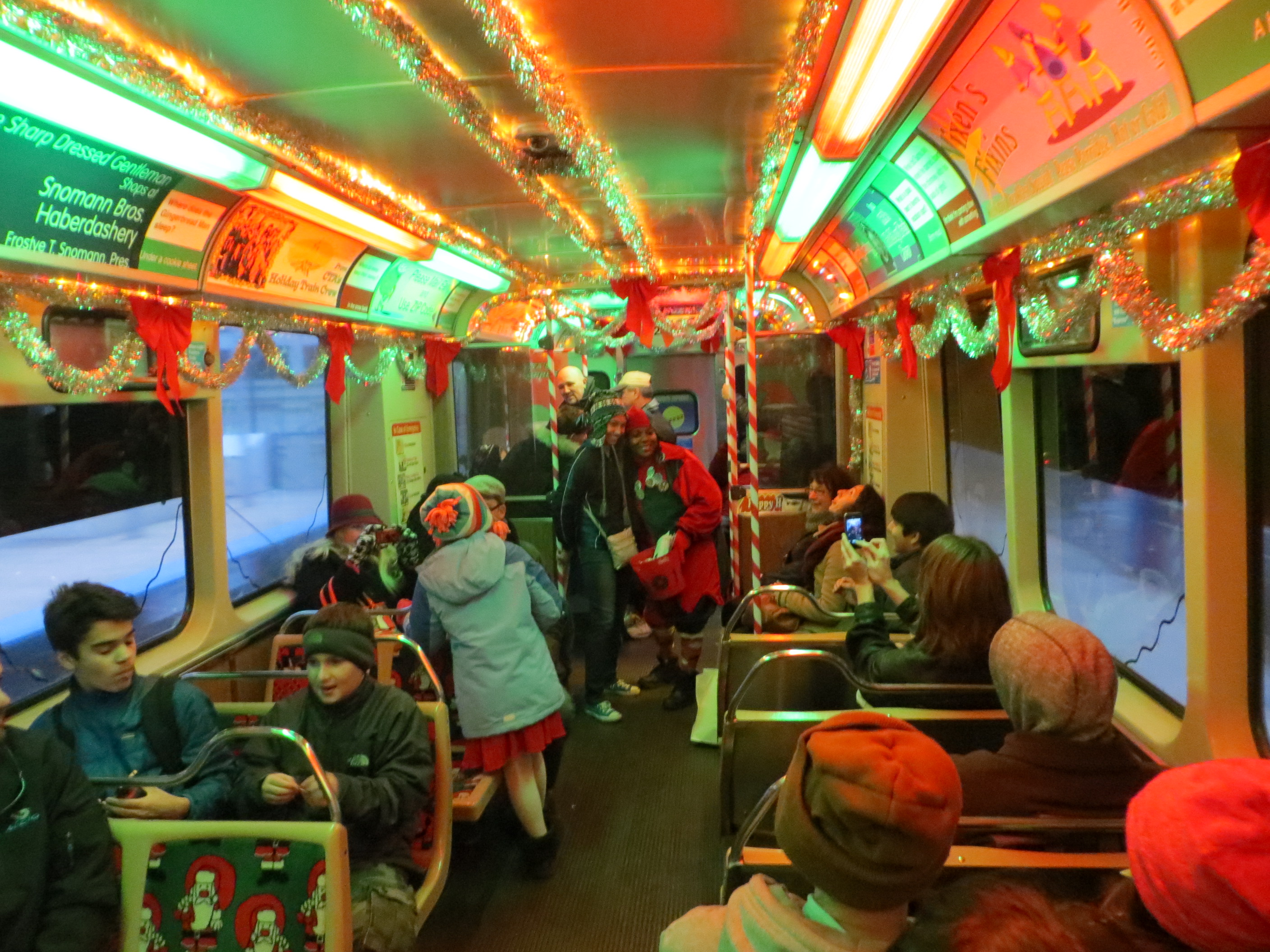 20131129 16 CTA Holiday Train